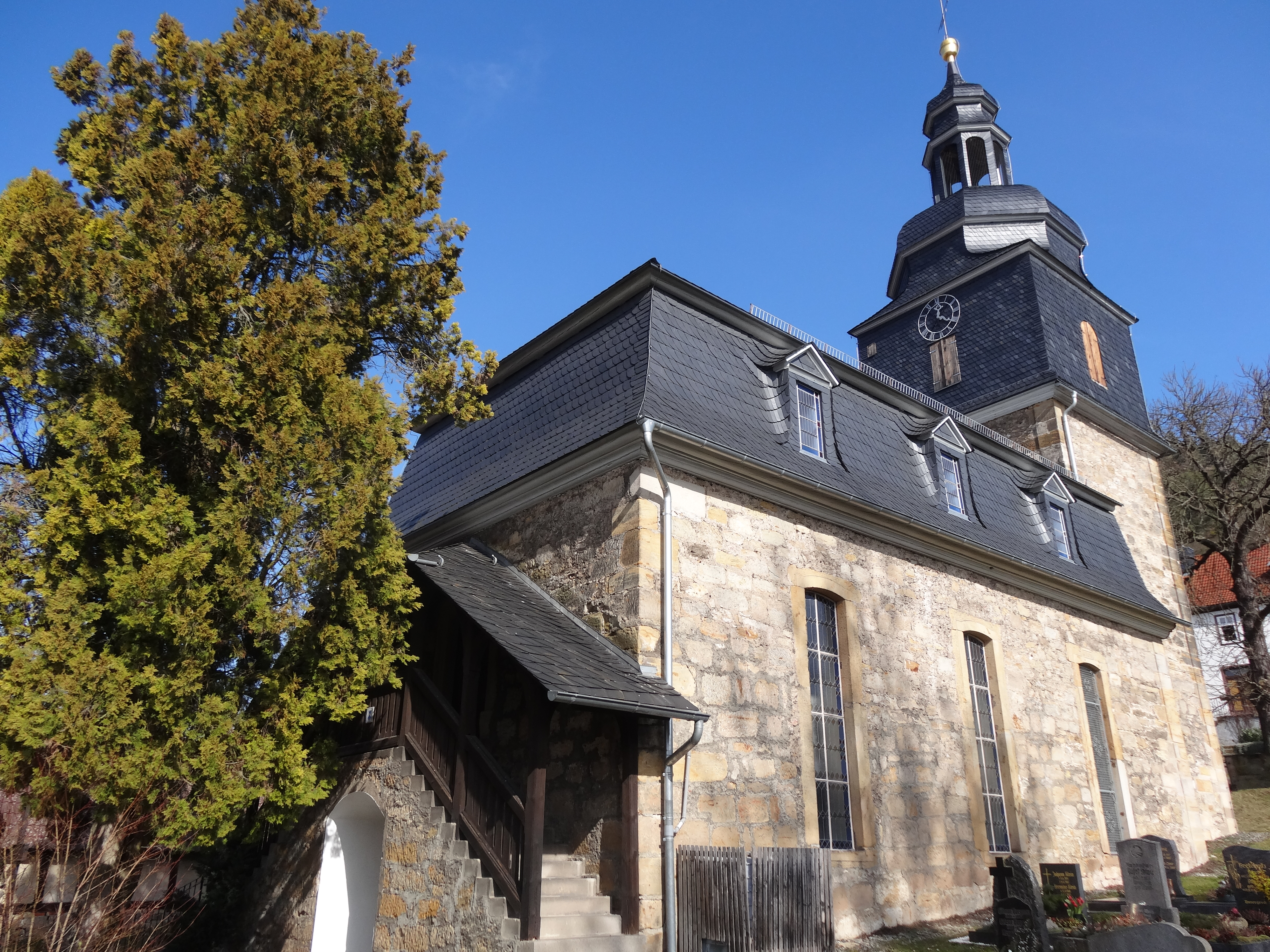 Church in Thälendorf, Thuringia, Germany